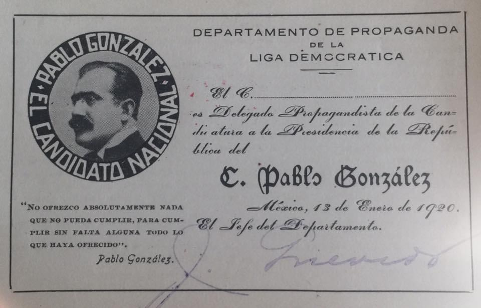 Liga Democrática Party Propaganda postulating Pablo González Garza as President of Mexico candidate in 1919